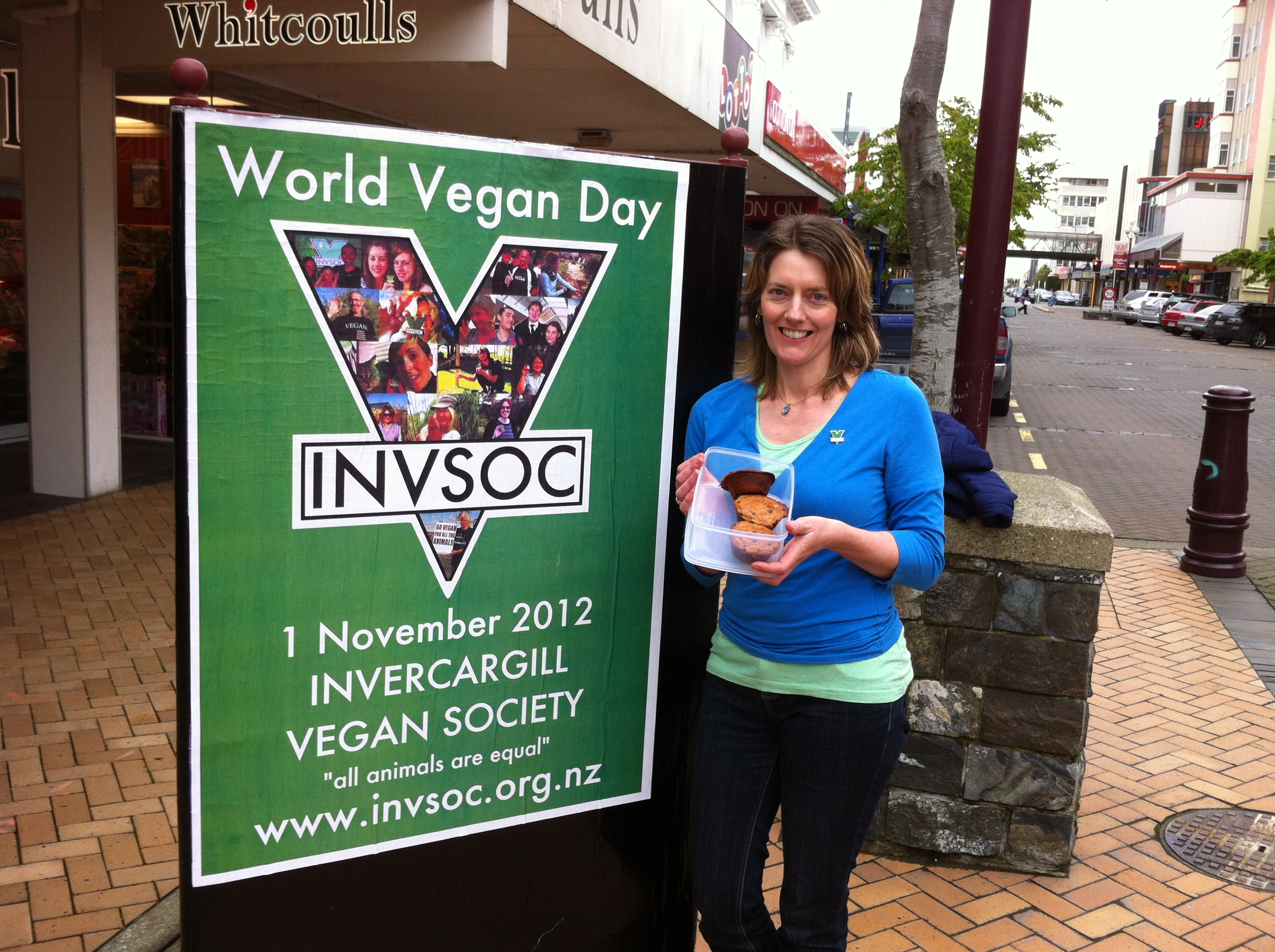 Invercargill Vegan Society members give out baking by a World Vegan Day street poster